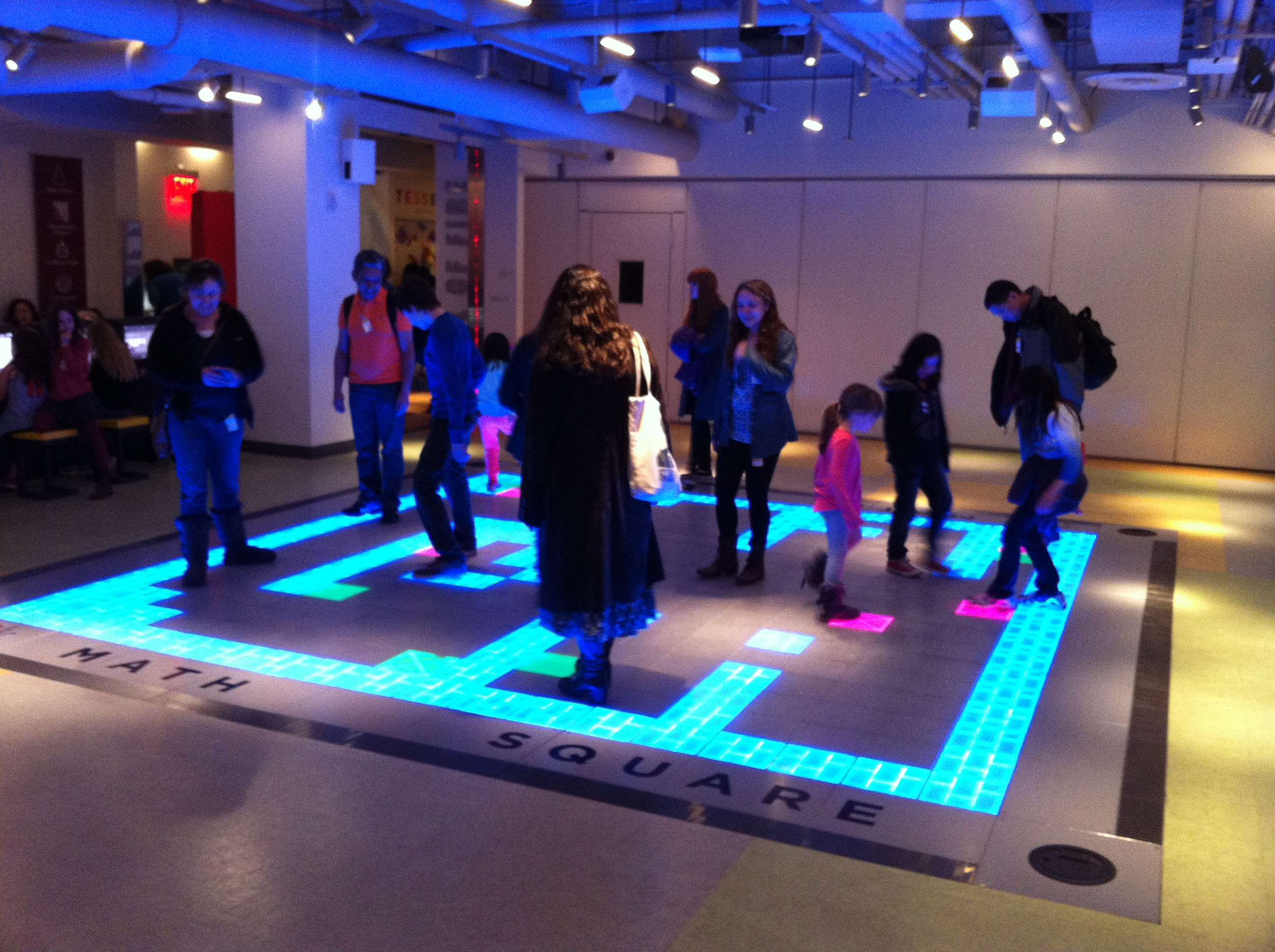 museum of mathematics - momath